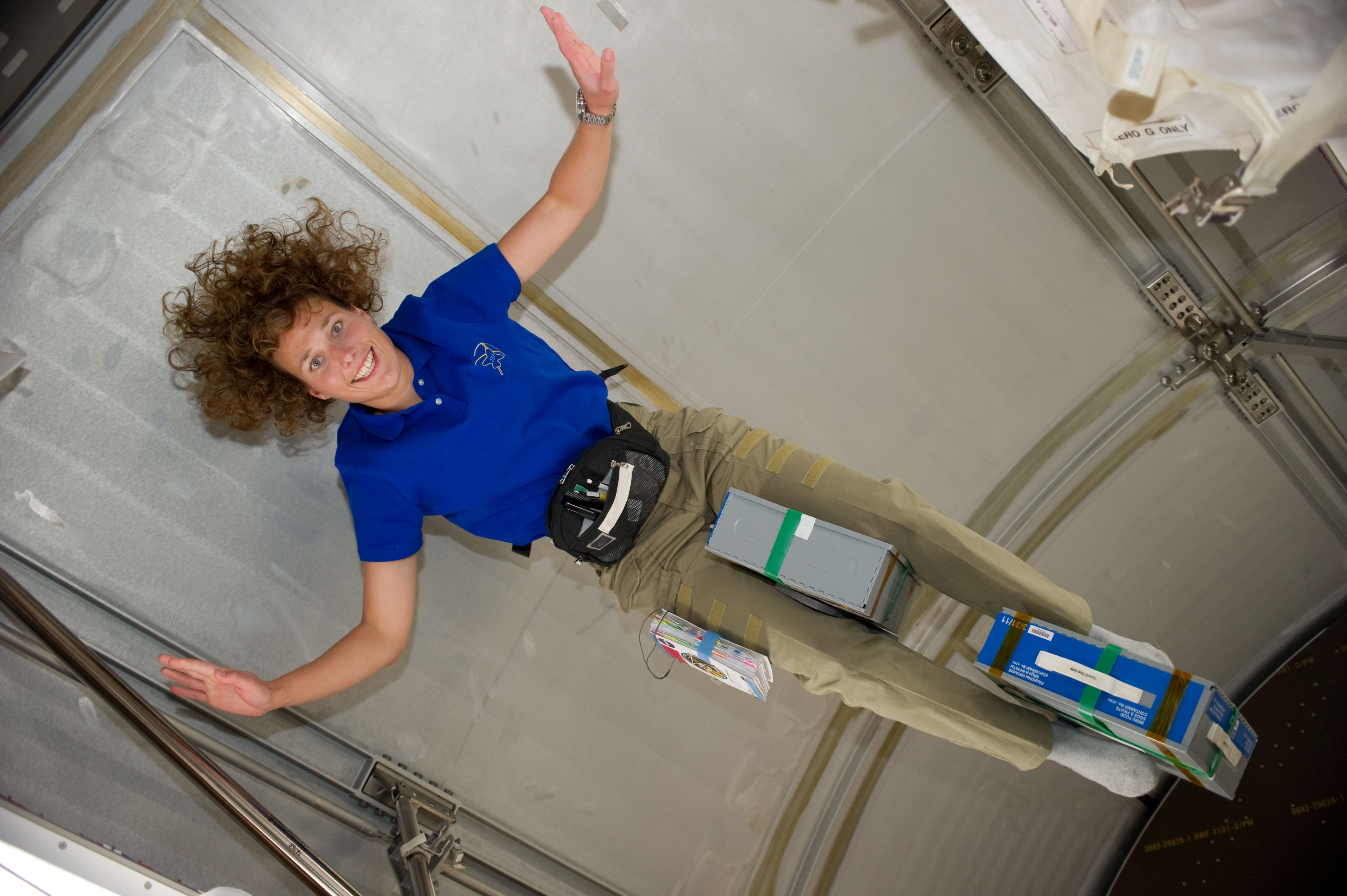 NASA astronaut Dorothy Metcalf-Lindenburger, STS-131 mission specialist, holds stowage containers with her legs while floating freely in the Leonardo Multi-Purpose Logistics Module (MPLM) linked to the International Space Station while space shuttle Discovery remains docked with the station.